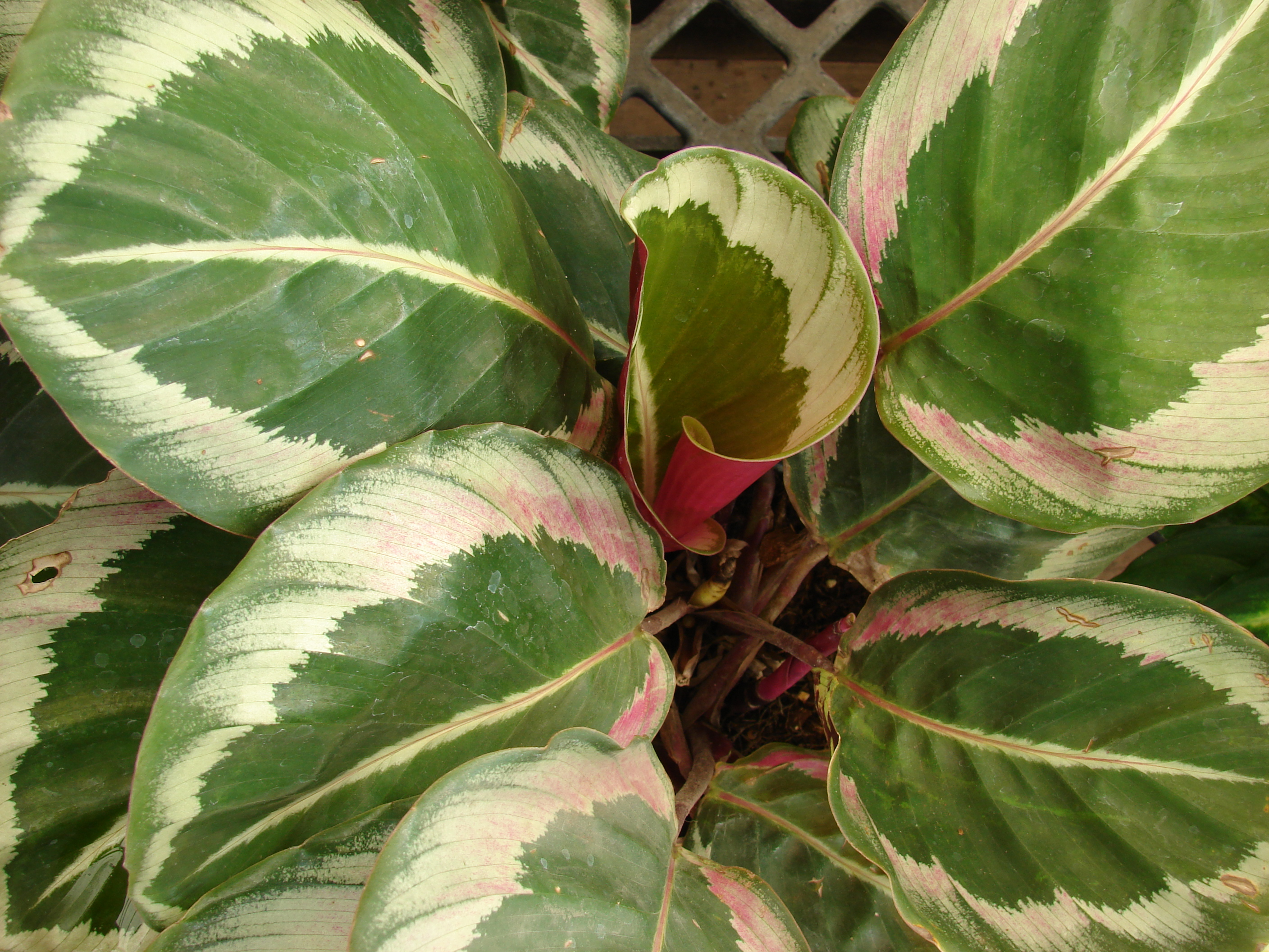 Calathea roseopicta (leaves). Location: Maui, Walmart Kahului